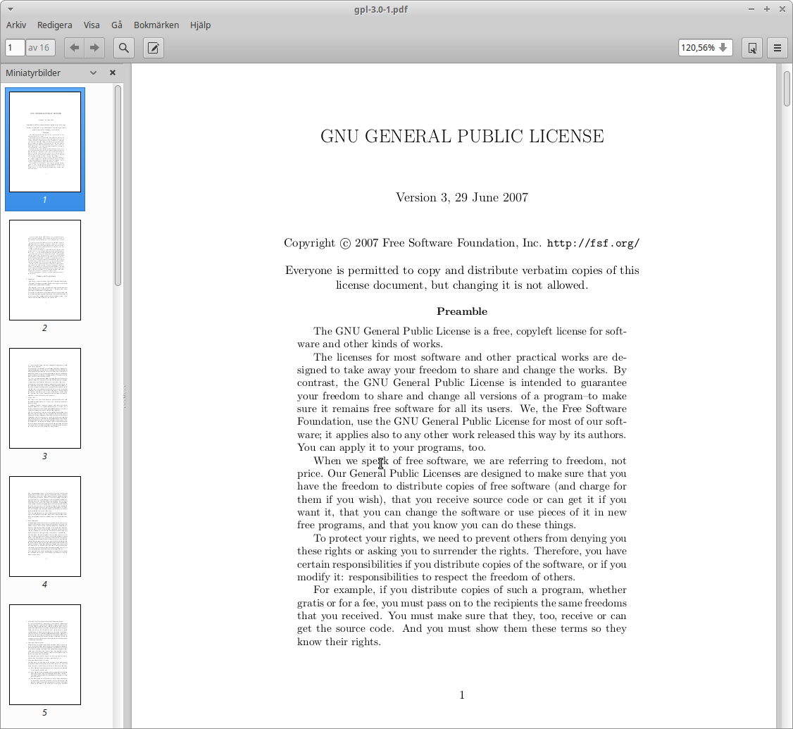 Evince document viewer 3.18.2 running in Xubuntu 16.04.